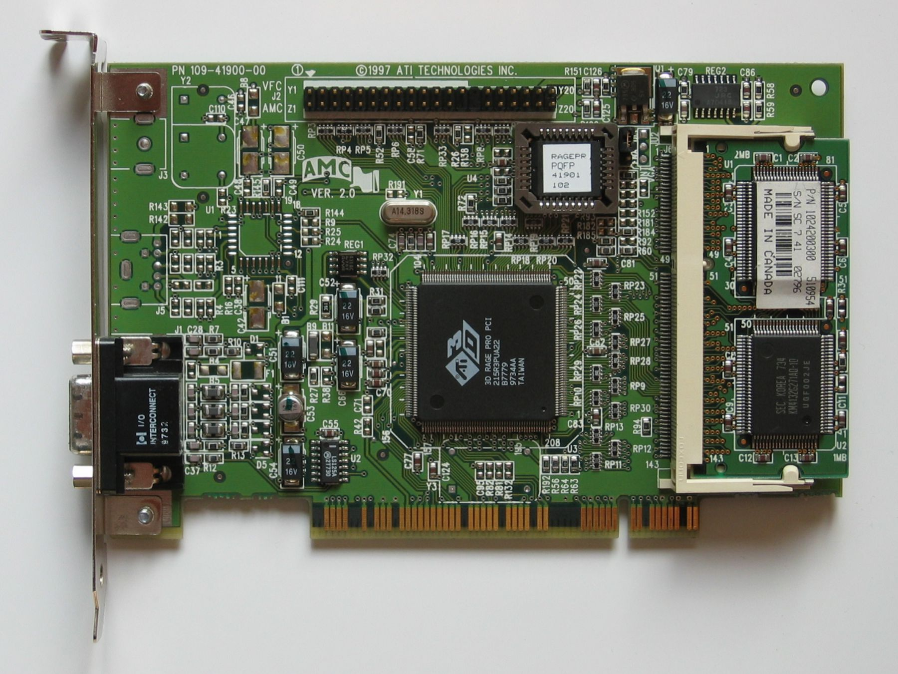 Ati 3D Rage Pro PCI 8MB